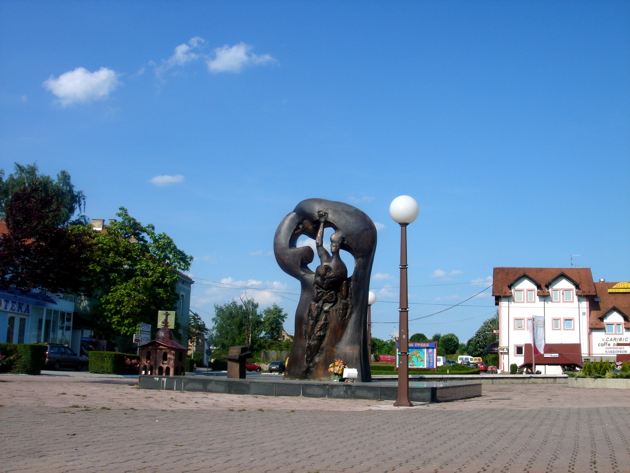 Main square - City of Brod (Republika Srpska, Bosnia and Herzegovina)